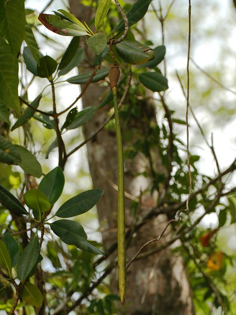 Attached, mature propagule of Rhizophora racemosa, mangrove forest near Vigia, Pará, Brazil*